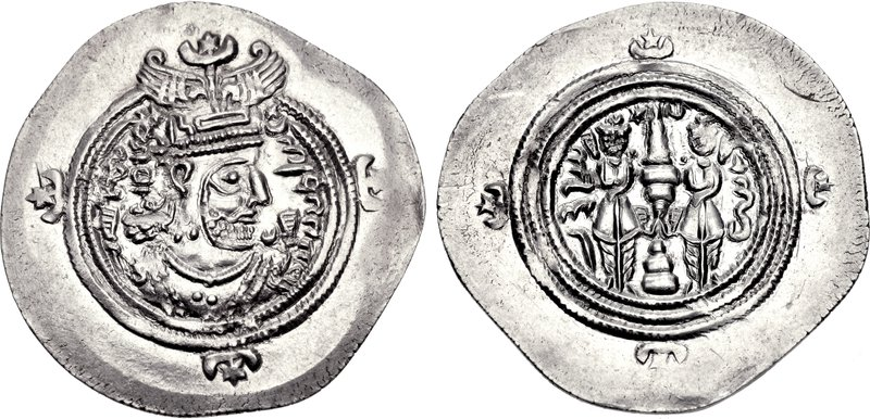 Coin of Azarmidokht with the bust of her father Khosrau II to the left.